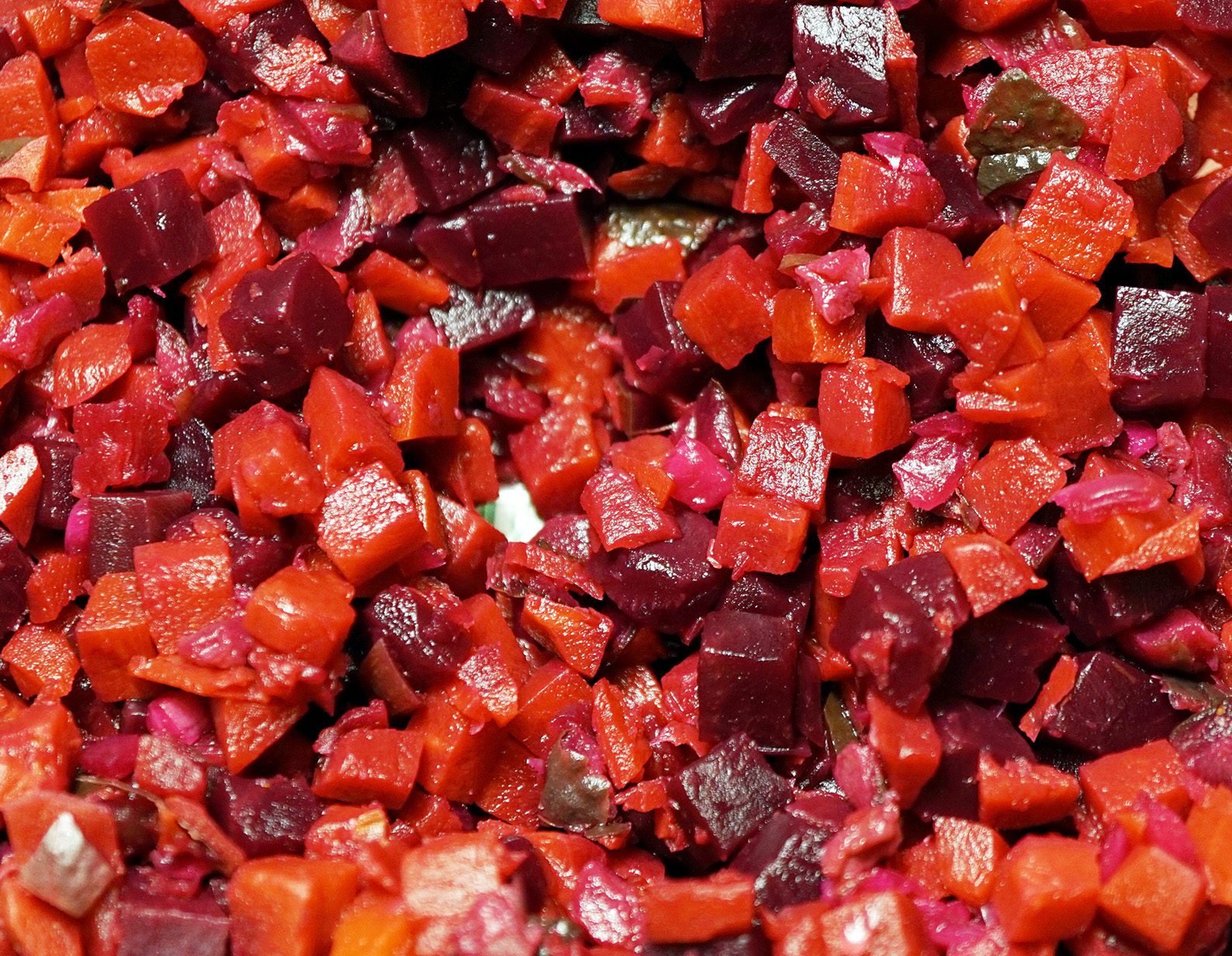 Rosolli salad, Christmas food in Finland.